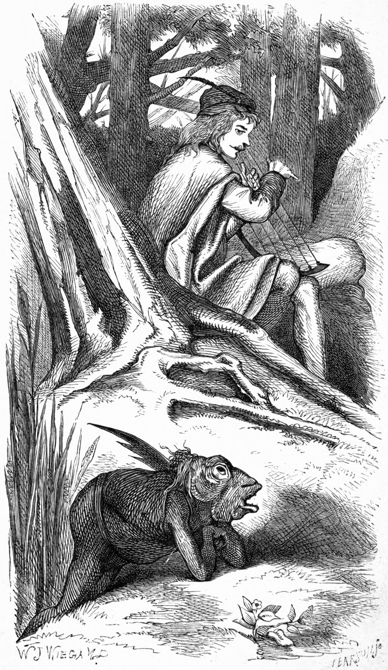 Sir Peter and the Ugly Sprite (the title in the list of illustrations). Illustration to some variant of Harpans kraft, Sir Peter is Herr Peder and the Ugly Sprite is Näcken.